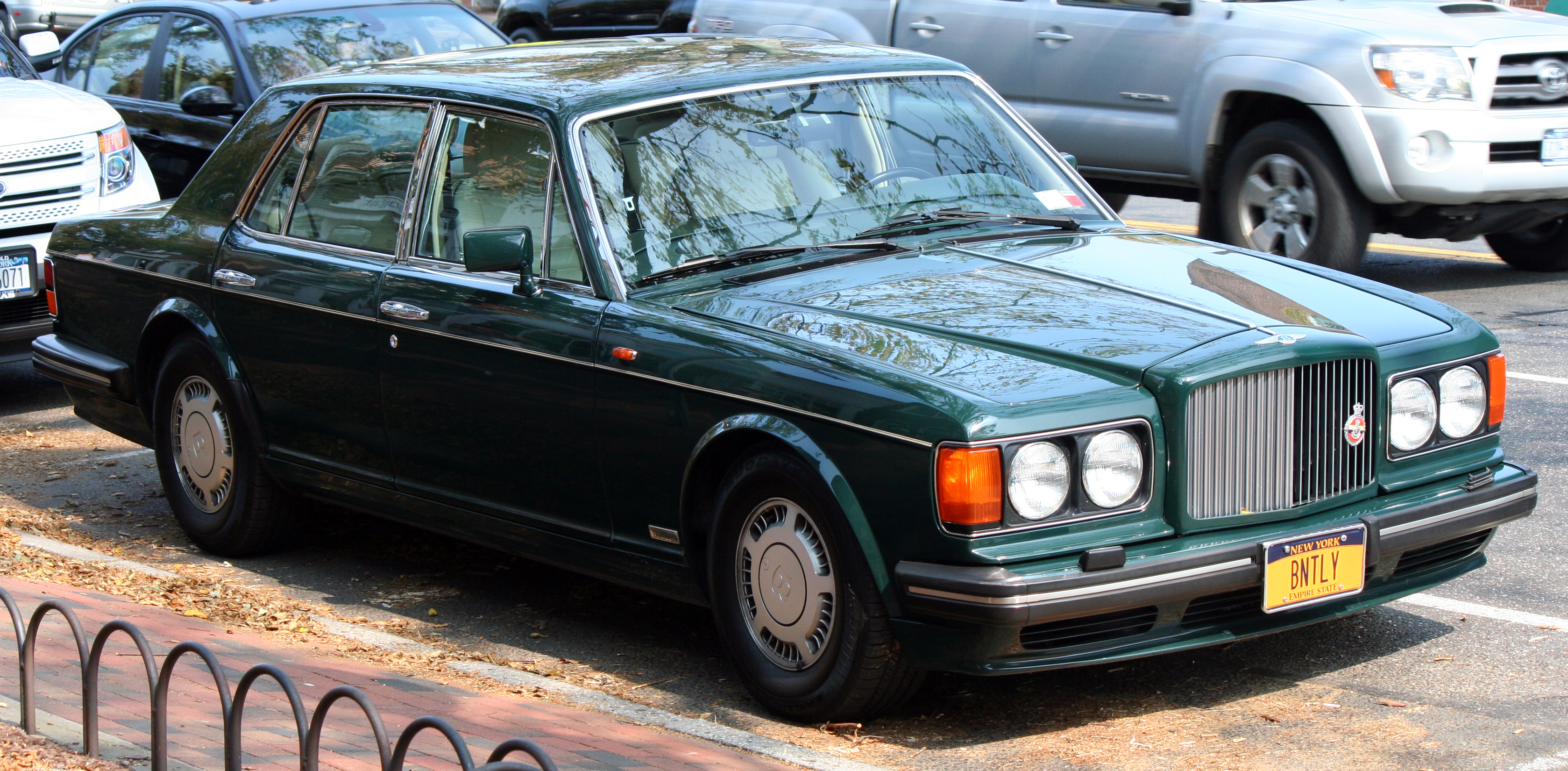 1993 Bentley Turbo R, seen in East Hampton, NY